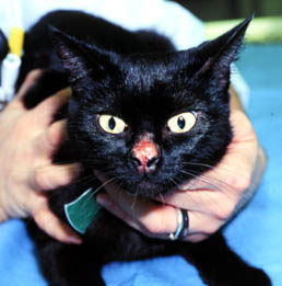 Cat with eosinophilic dermatitis caused by mosquite bite allergy